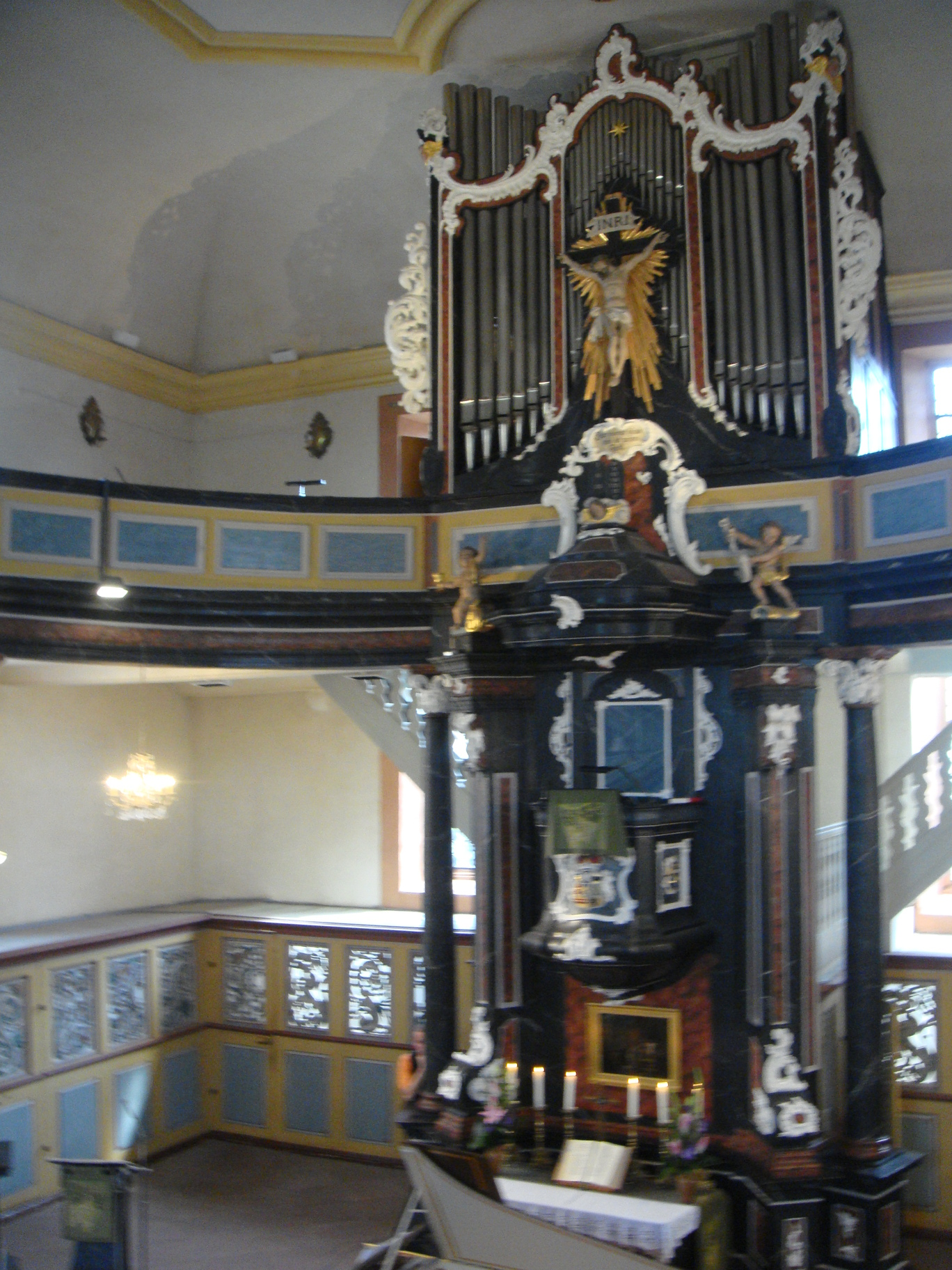 Christophoruskirche (St. Christopher Church), Wiesbaden-Schierstein, organ behind the altar